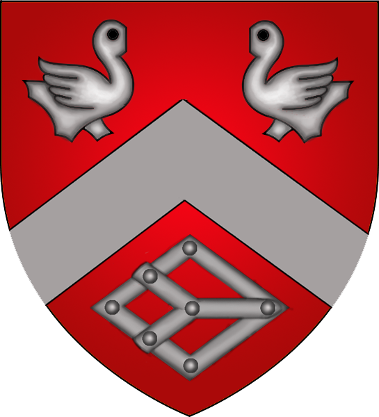 Coat of arms of the former municipality of Fouhren, Luxembourg